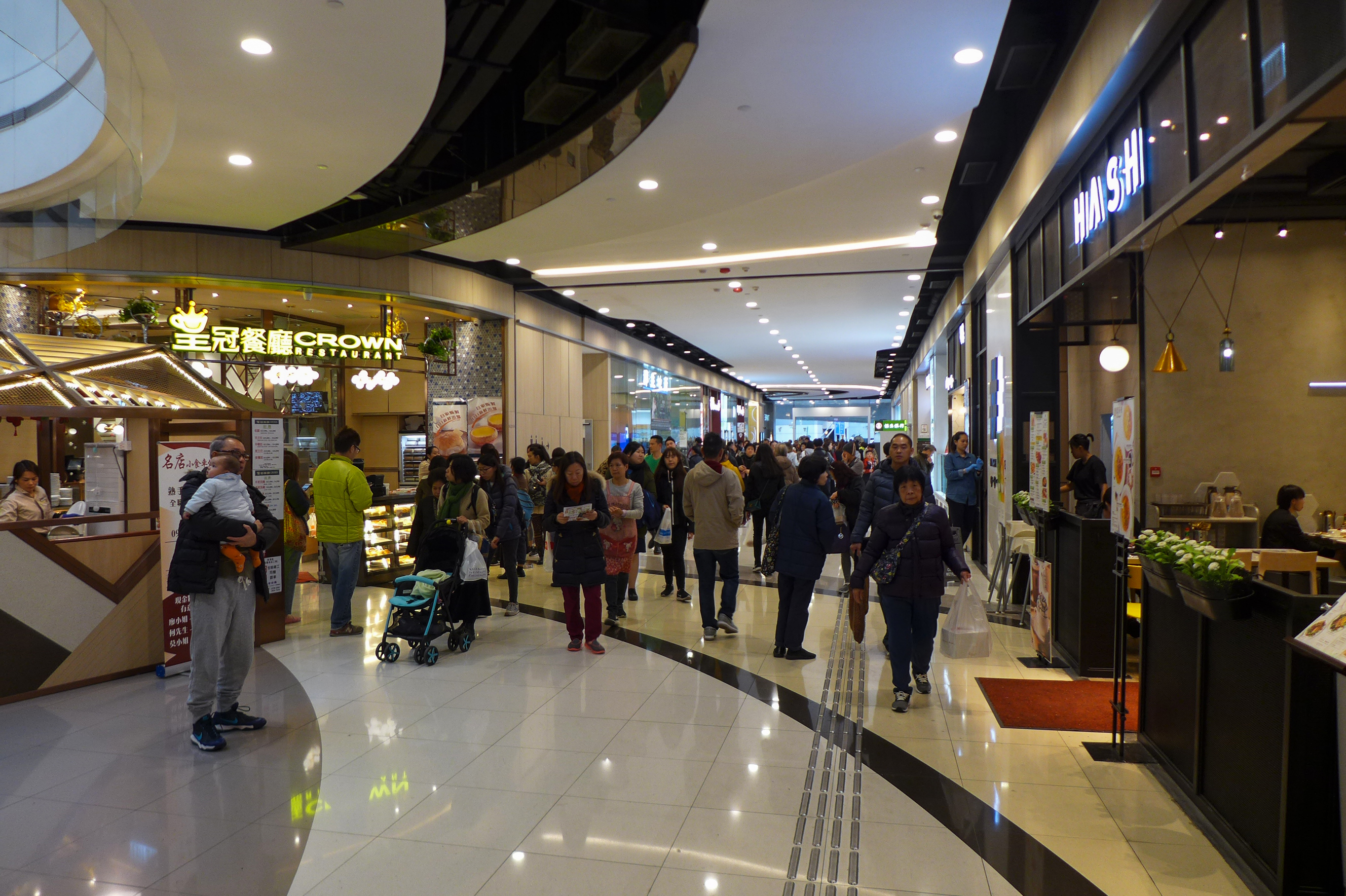 T Town North GF